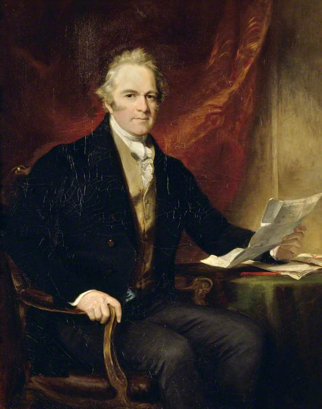 The Earl of Powis is depicted holding a document entitled "Saint Asaph and Bangor Dioceses: A Bill". According to the National Trust, this indicates that the portrait was intended to commemorate the Earl's successful activities, in the House of Lords, concerning the proposed merger of these two dioceses.